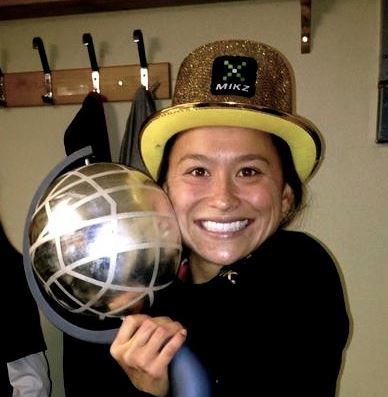 Damallsvenskan Gold 2013